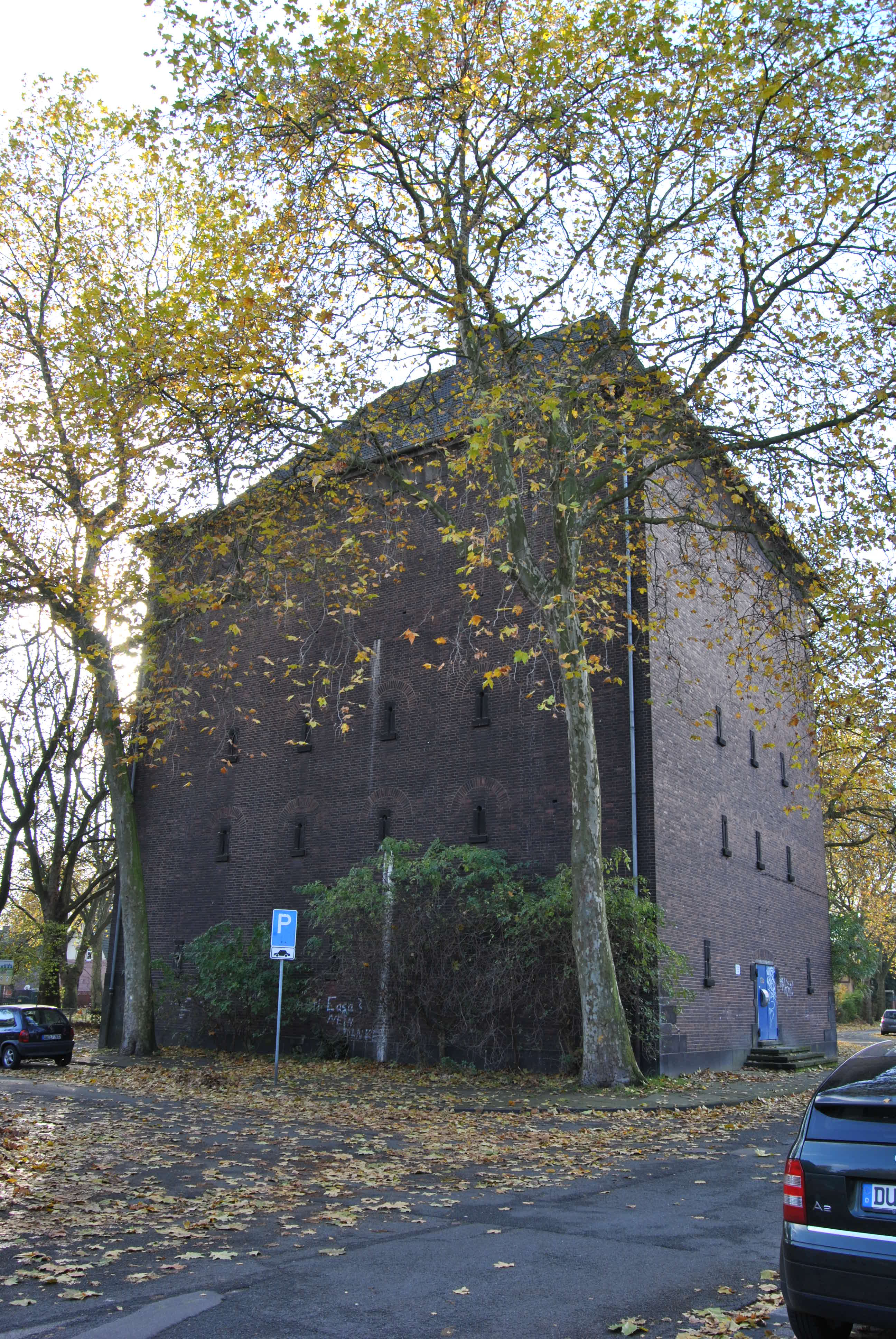 Duisburg (North Rhine-Westphalia, Germany) – borough Hamborn, district Neumühl – mine colony Siedlung Bergmannsplatz – bunker This image shows a heritage building in Germany, located in the North Rhine-Westphalian city Duisburg (no. 527). This photograph was taken with a Nikon D3000.